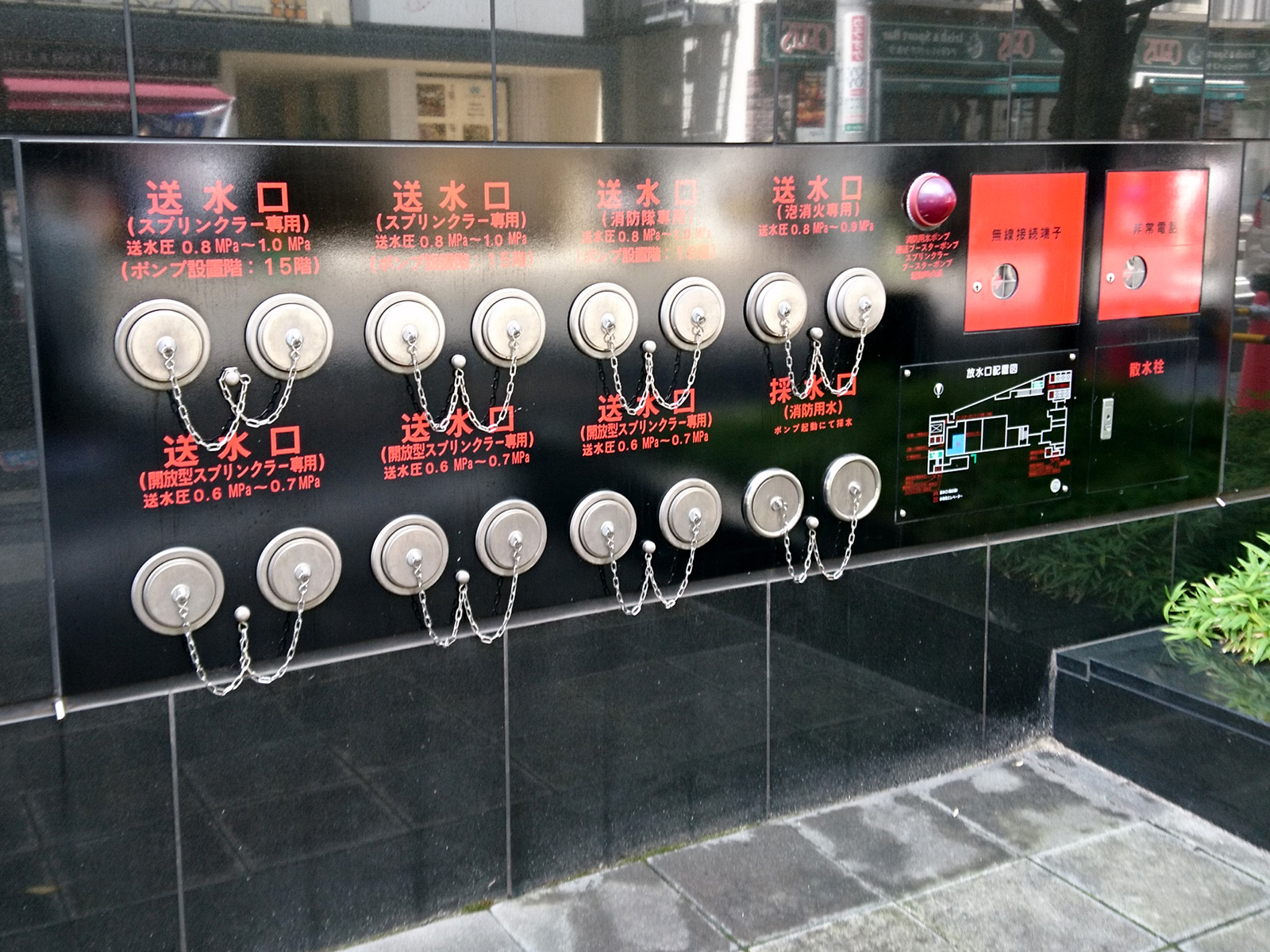 Standpipes to supply water for firefighting, in front of Aichi Industry and Labor Center (Winc Aichi) in Japan.